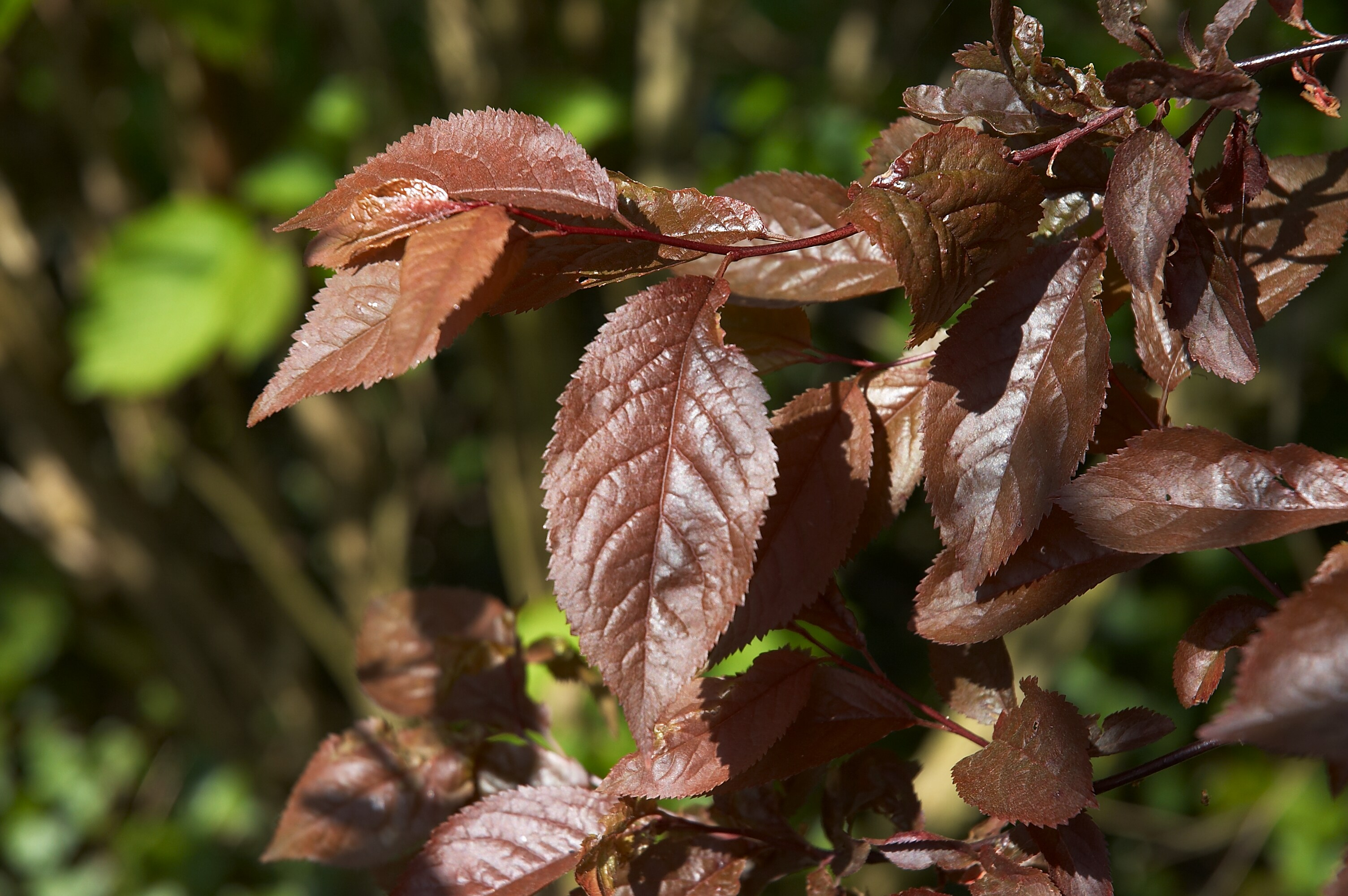 Leaves of prunus cerasifera 'Nigra'